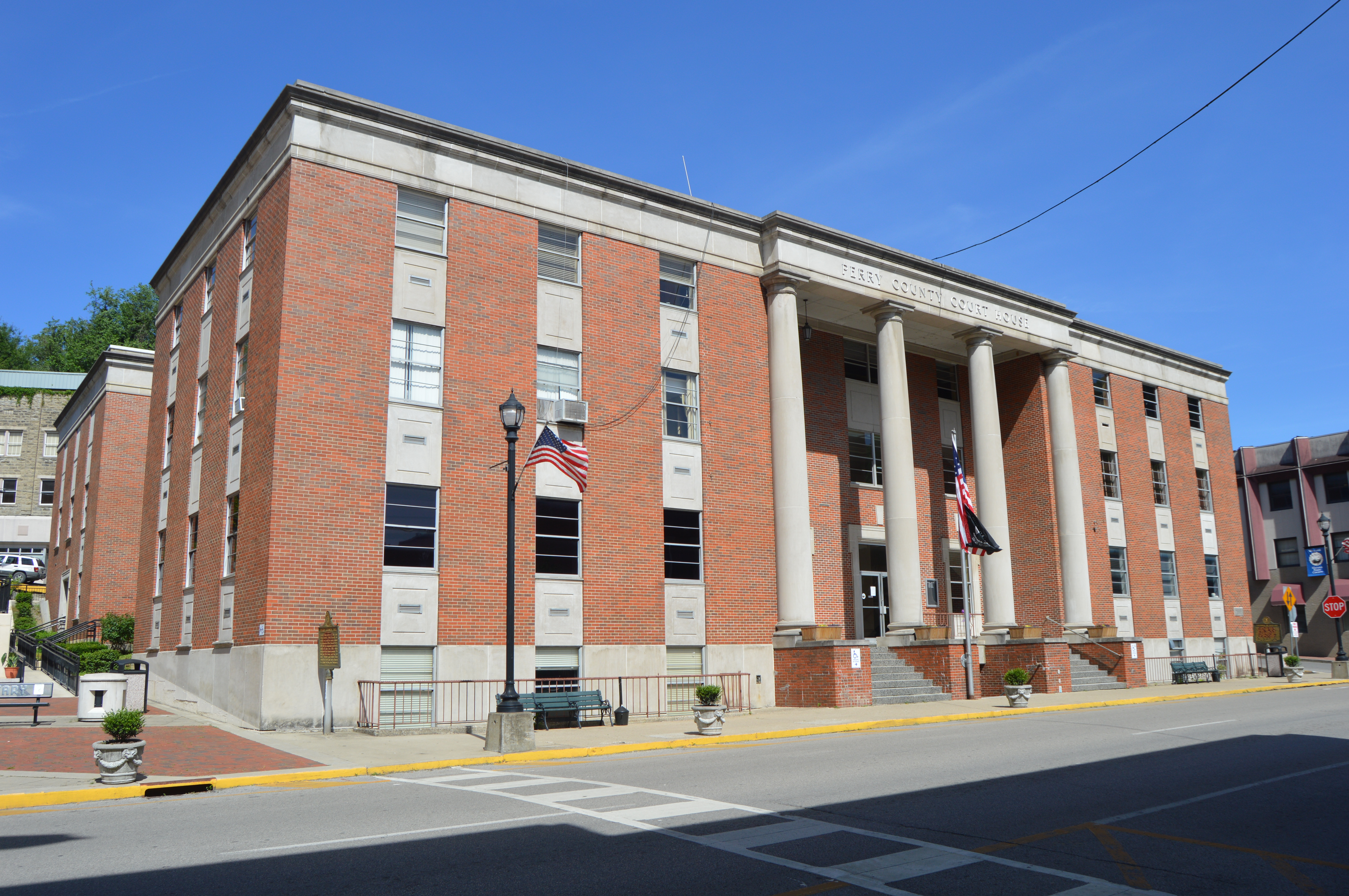 Front of the Perry County Courthouse, located on Main Street (Kentucky Route 2449) in central Hazard, Kentucky, United States.